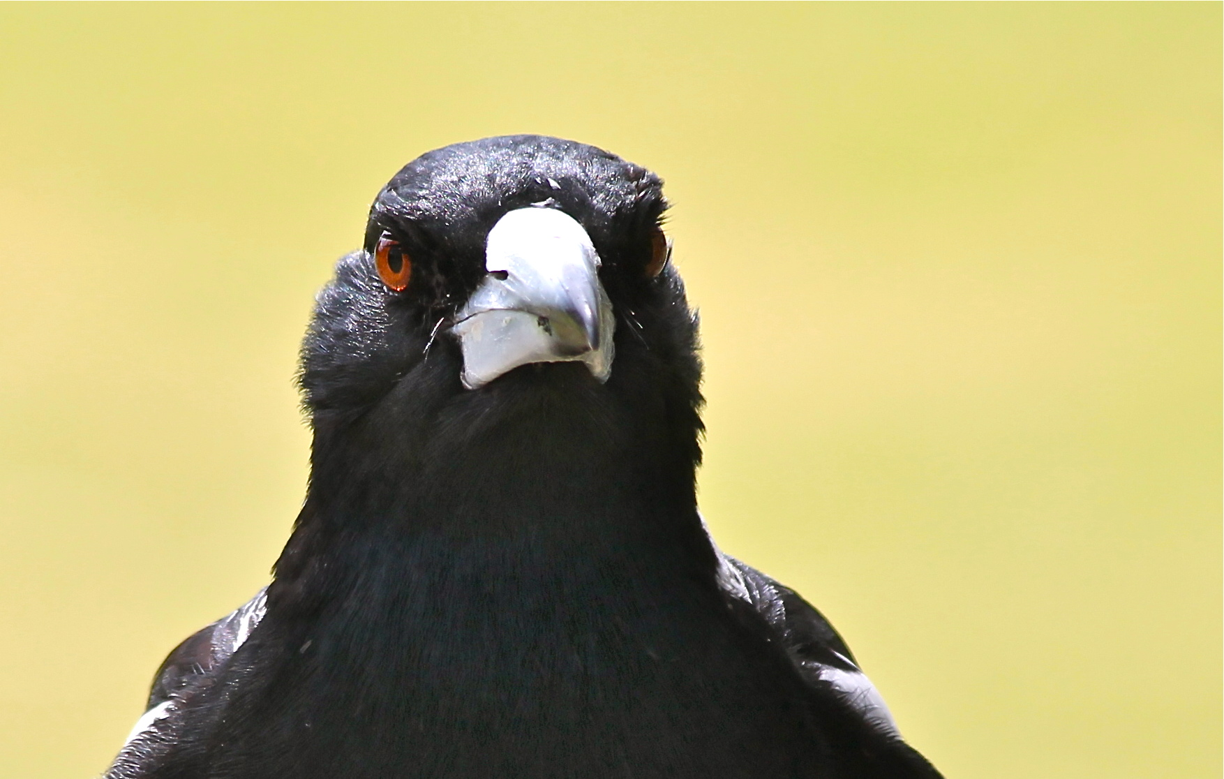 Western Magpie at Whiteman Park (Perth, Western Australia) 13 October 2012